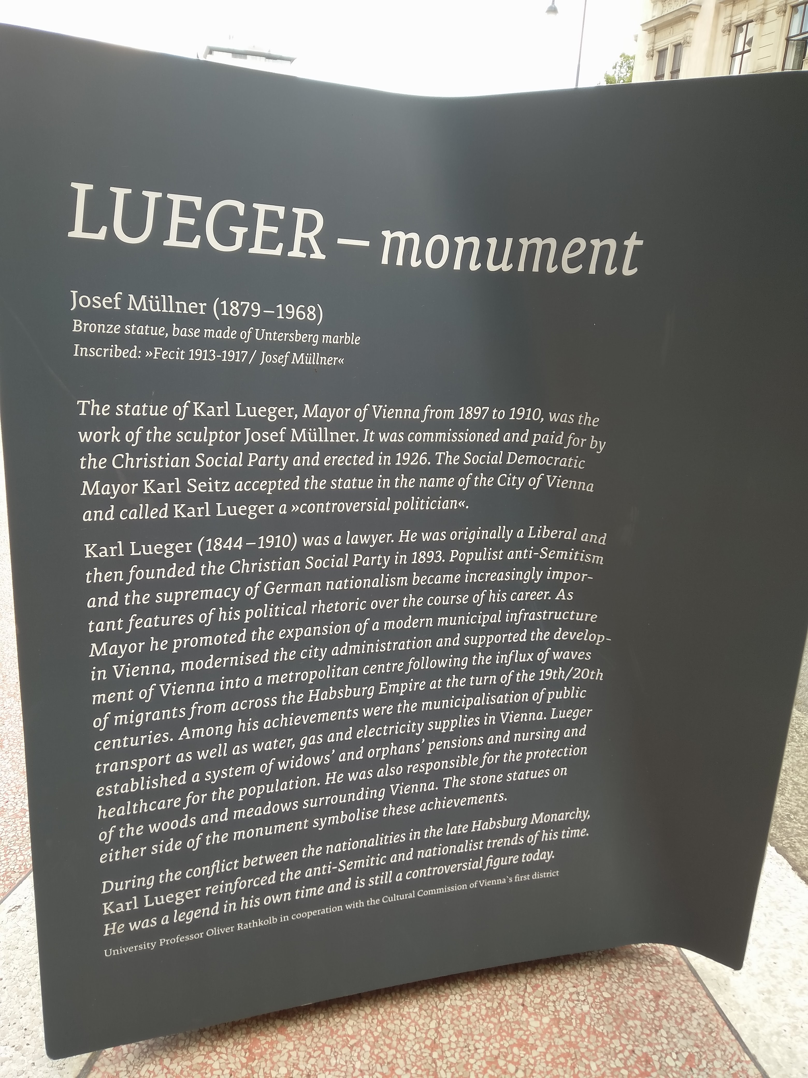 Plaque contextualizing the monument to Karl Lueger, controversial mayor of Vienna, at the Luegerplatz.